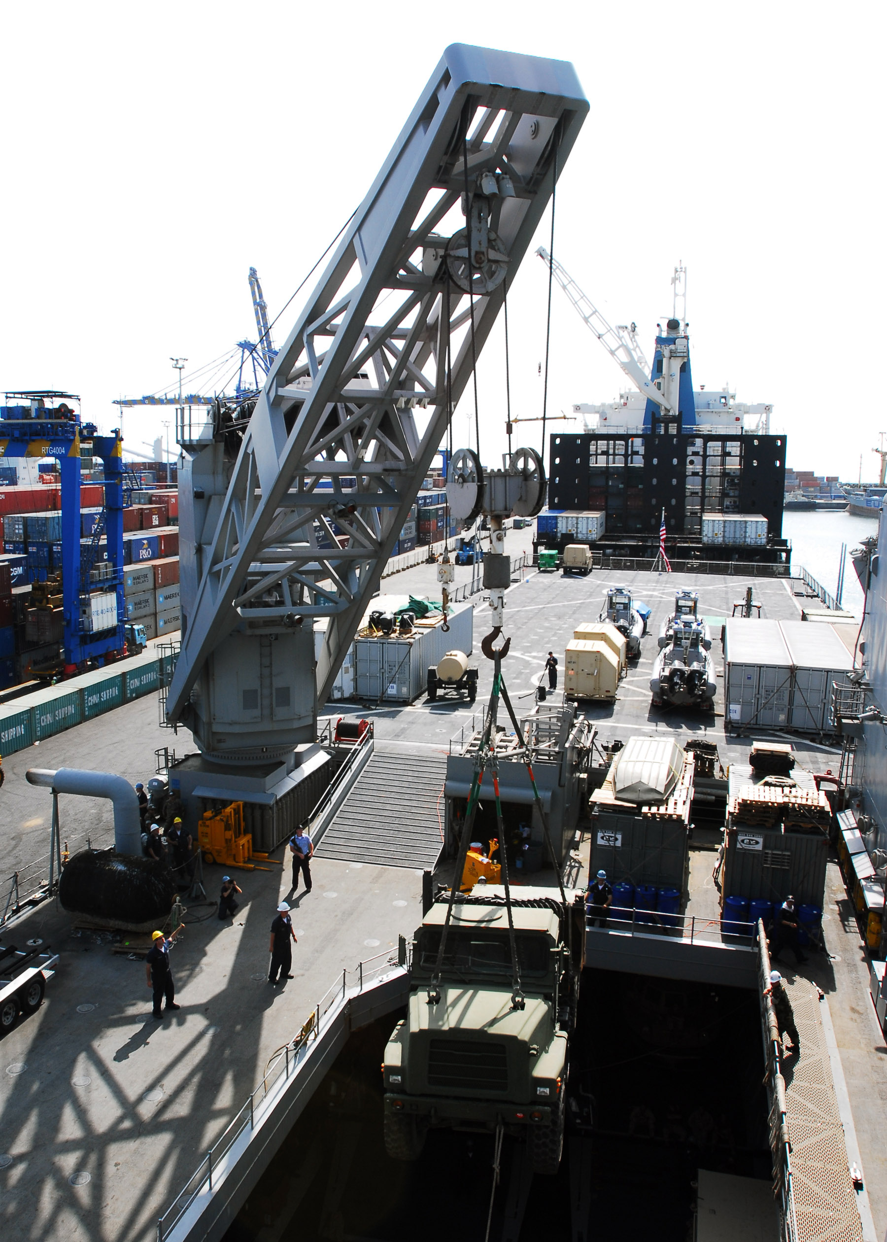 Material transshipped from the hangar of the USS Fort McHenry at the port of Tema (Ghana).